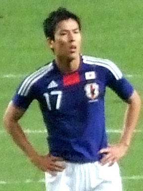 Makoto Hasebe playing for Japan national football team in 2009.